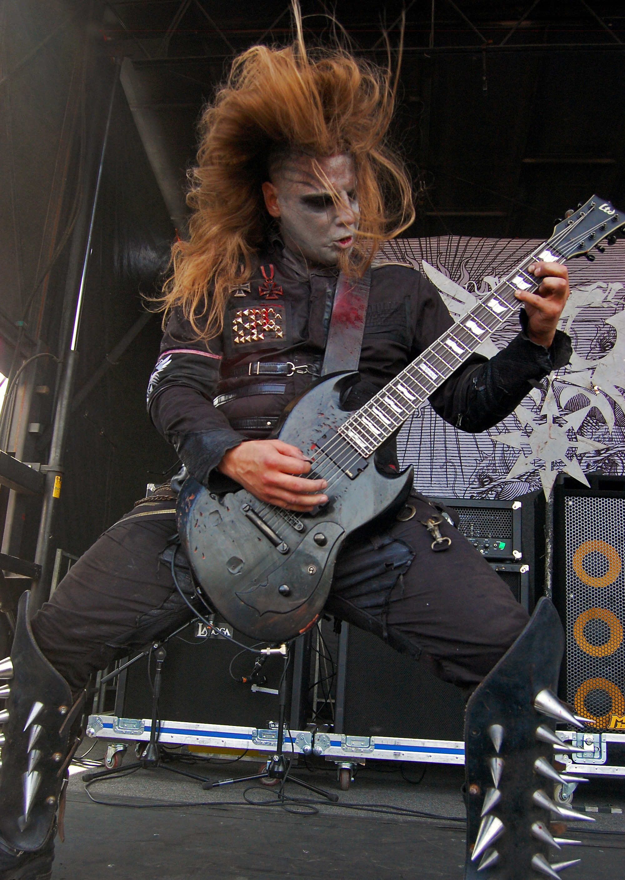 Behemoth at Mayhem Fest Hartford